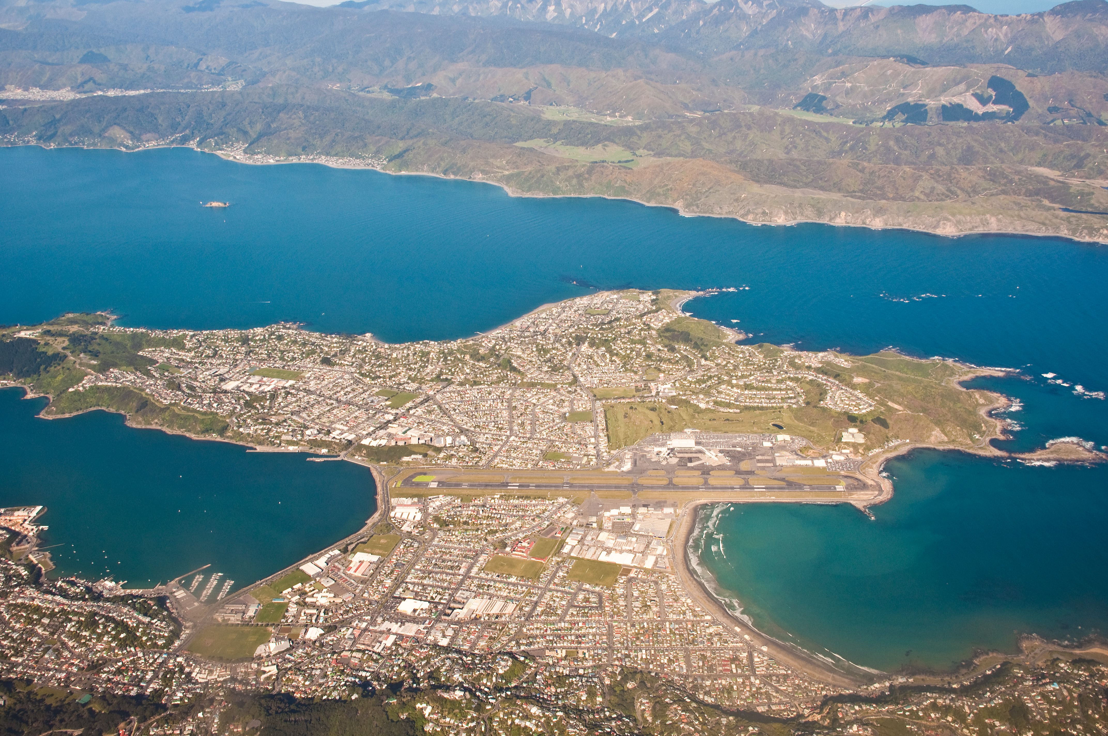 Wellington Airport, New Zealand, 6 November 2009